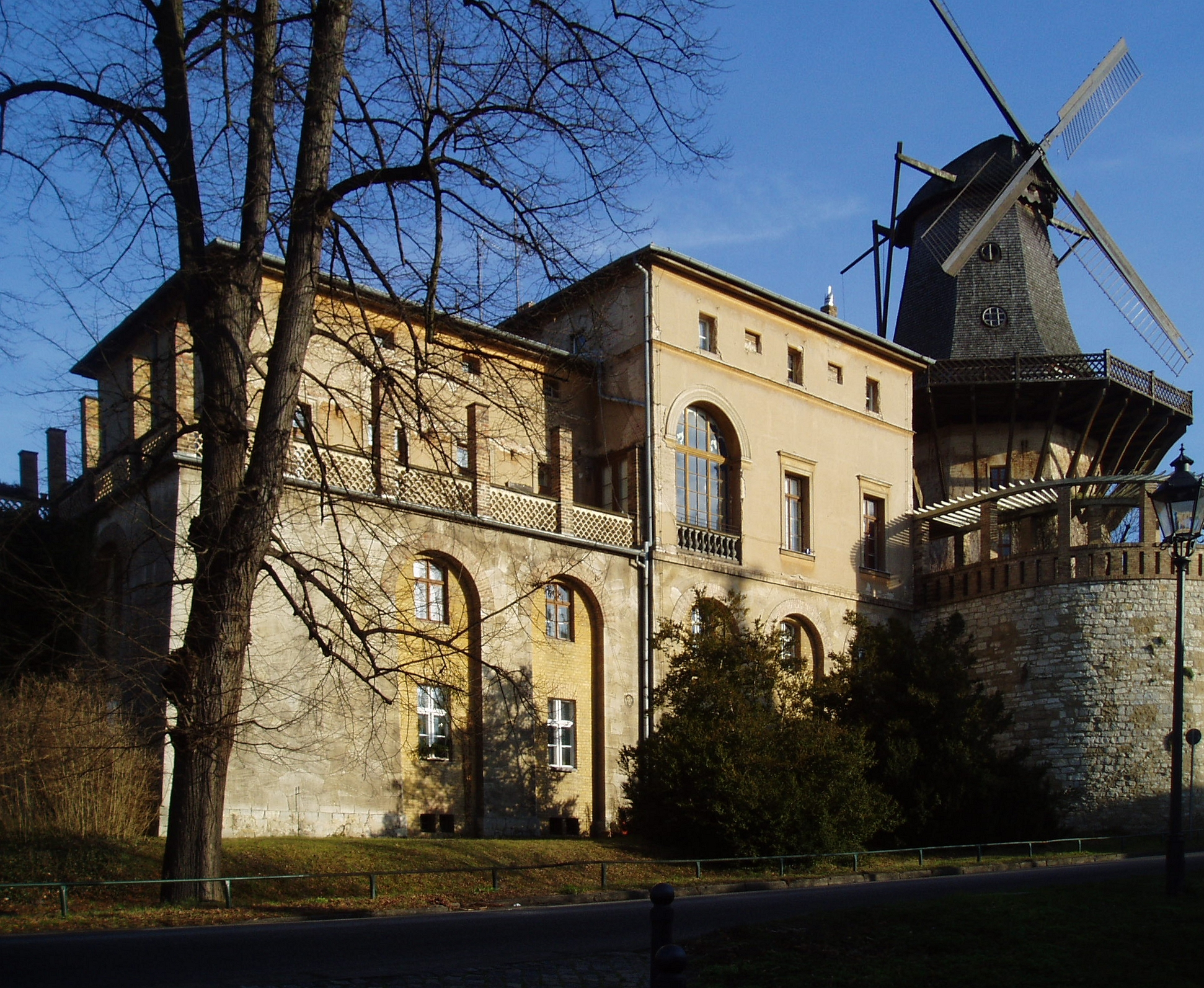 The mill house at the "Historic windmill in Sanssouci", Potsdam, Germany